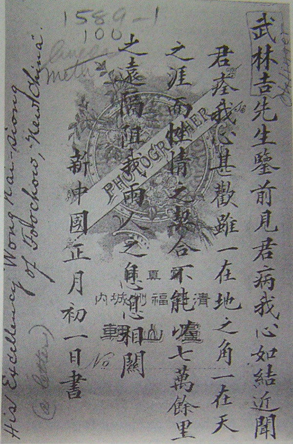 Wong Nai-siong's manuscript on the back of a photo Mìng-dĕ̤ng-ngṳ̄: Uòng Nāi-siòng diŏh sióng-piéng huāng-méng kék Ū Lìng-gék dà̤-cê